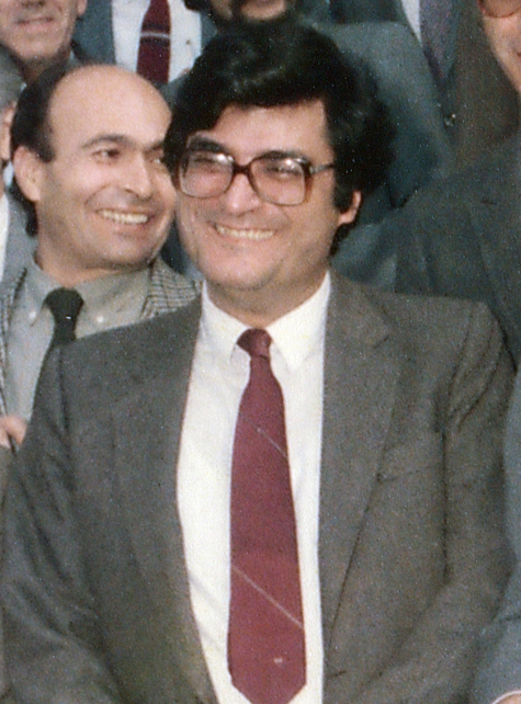 Spyros A. Katiniotis (b. 1946). Photograph in 1986, while he was Member of the Hellenic Parliement.